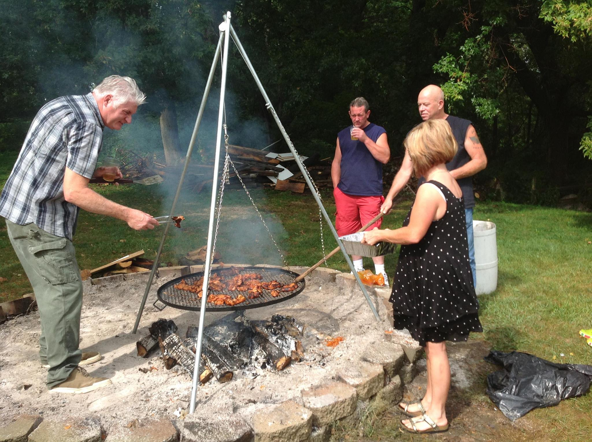 This is really a bitchin shot of the whole Schwenk process! The good woman is the last to properly handle the food, the Schwenkmeister and Grill spinner assure quality while the all-knowing Elder, a veteran of countless Schwenk parties, gleefully supervises the operation, beer in hand! CLASSIC.